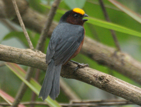 A Plushcap in Ecuador.